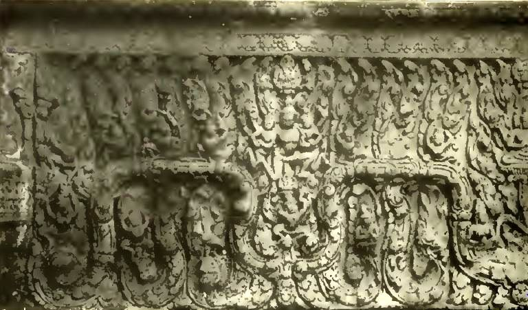 Angkor Wat Lintel at West Entrance Gate